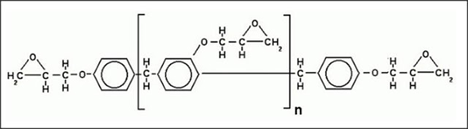 Bisfenol F